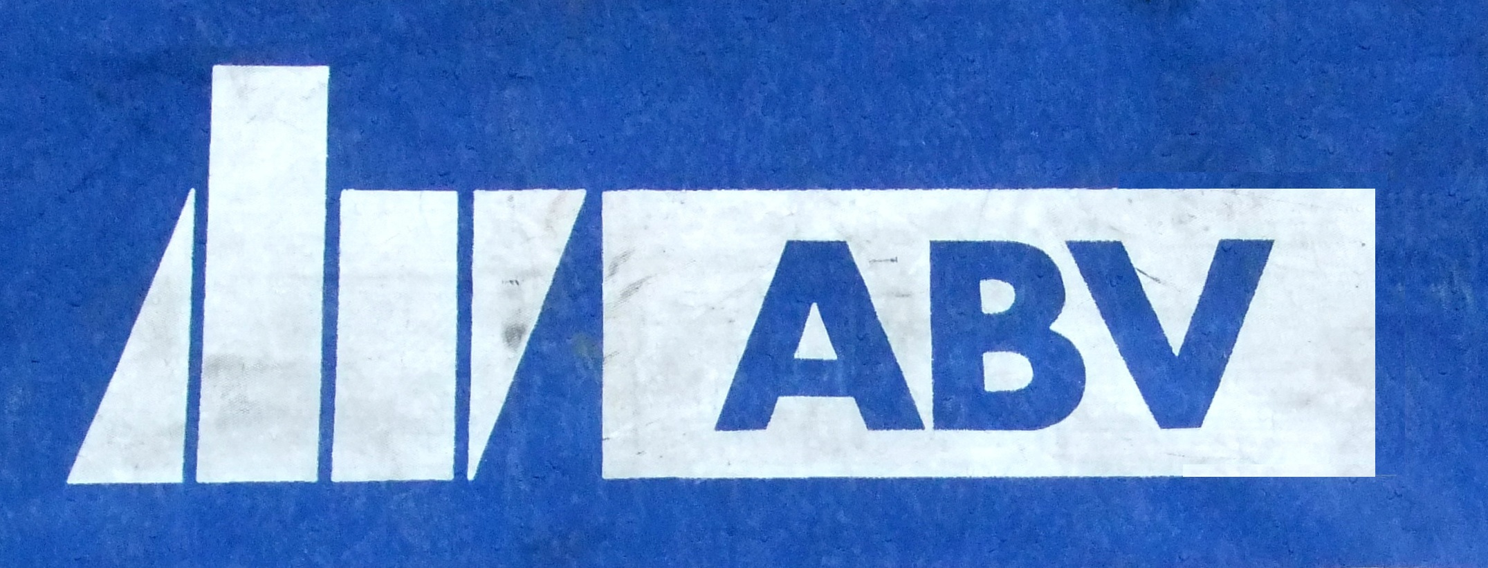 Logtype of a Swedish former contruction company